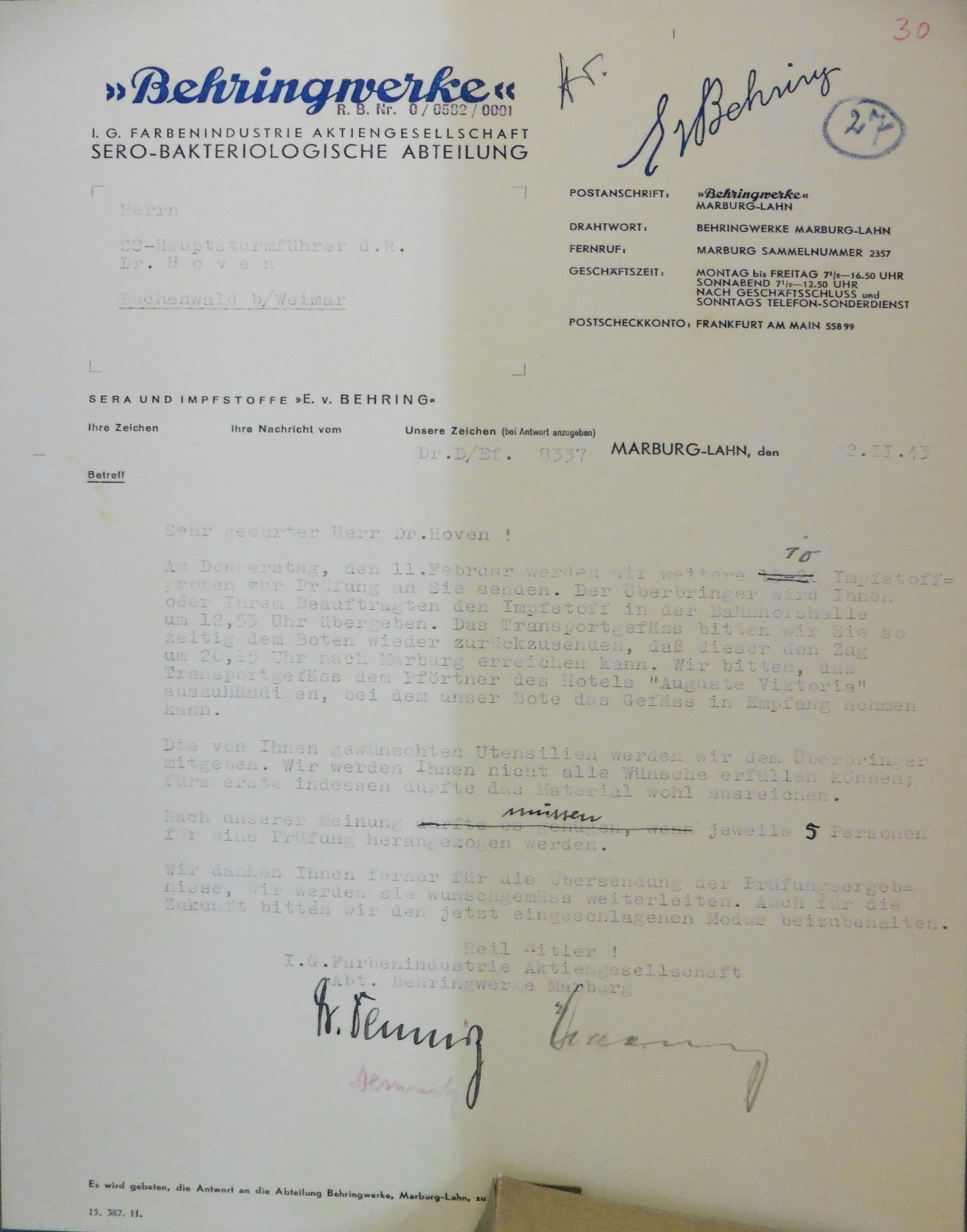 Document shown in Section 4/36 in the museum of the Buchenwald Memorial regarding typhus experiments with prisoners in the Buchenwald concentration camp 1942-1945